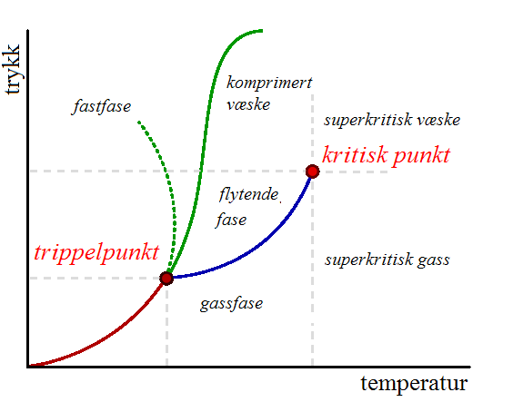 SVG converstion from raster image Image:Phase-diag.png; some additions from Image:Phase diagram.png